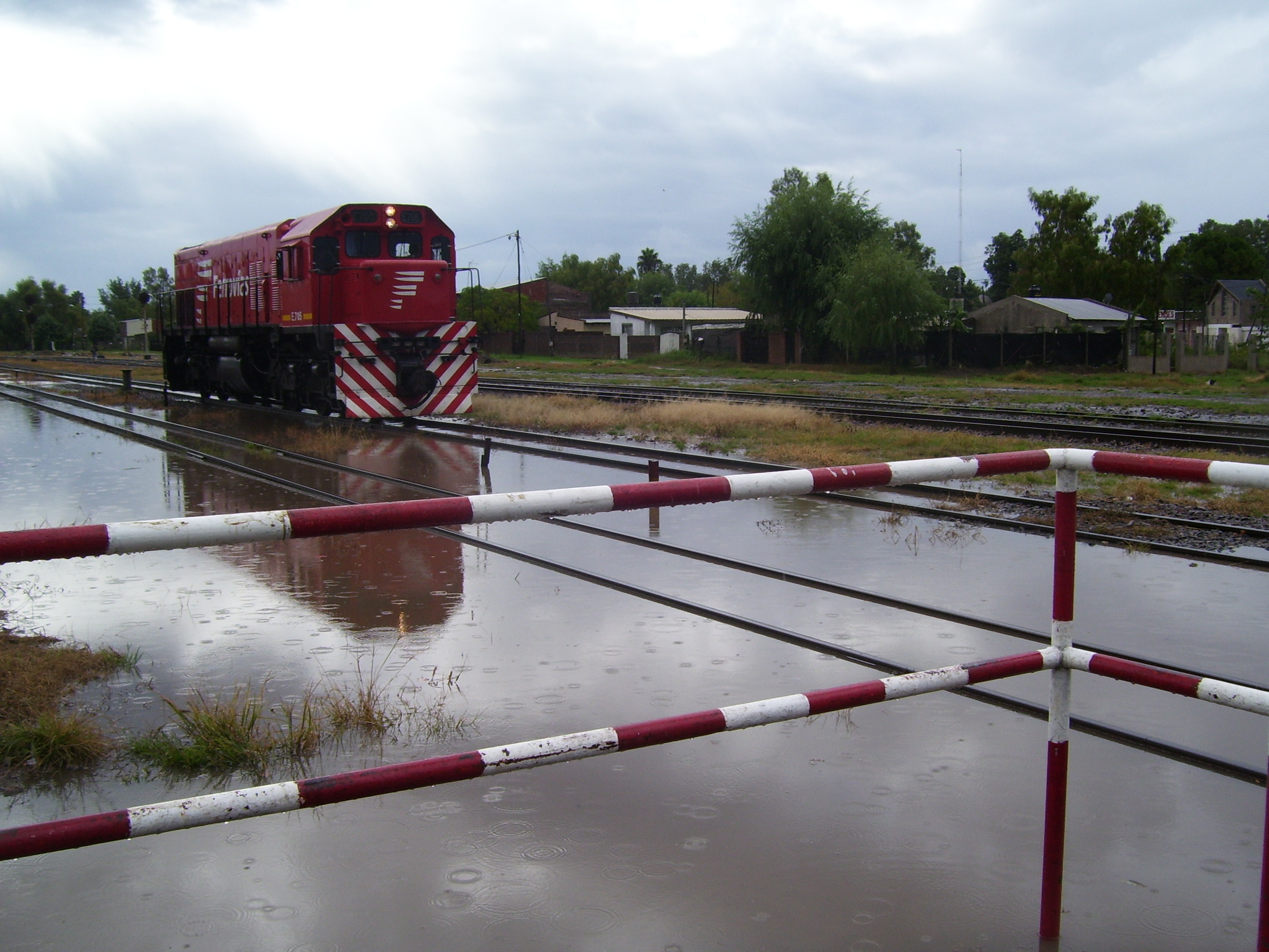 train over water